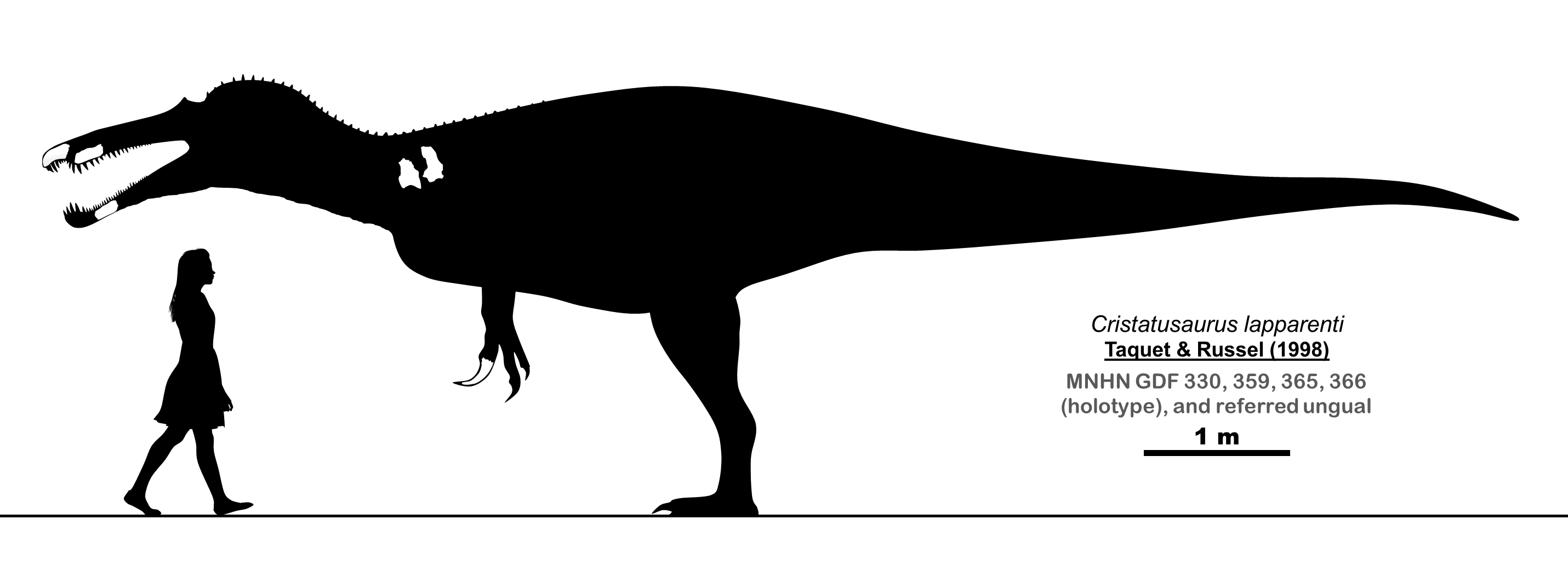 Skeletal diagram of Cristatusaurus lapparenti combining several assigned specimens, except two other known dorsal vertebra. Jaw fragments and vertebrae based on Taquet and Russel (1998)[1] - Claw based on this imageFile:Cristatusaurus claw.jpg by FunkMonk - Size estimate from Holtz (2010)[2] - Dinosaur silhouette based partly on Hartman (2012)[3] - Human silhouette made by me.